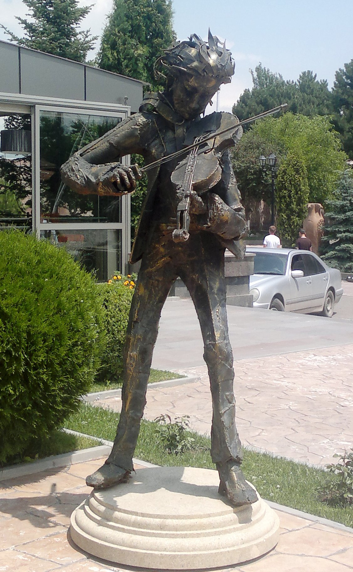 Երաժշտի արձան Իսուզի պուրակում 04, Cropped